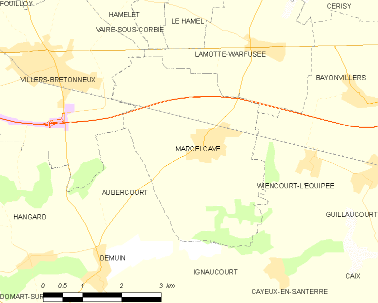 Map of French municipality Marcelcave